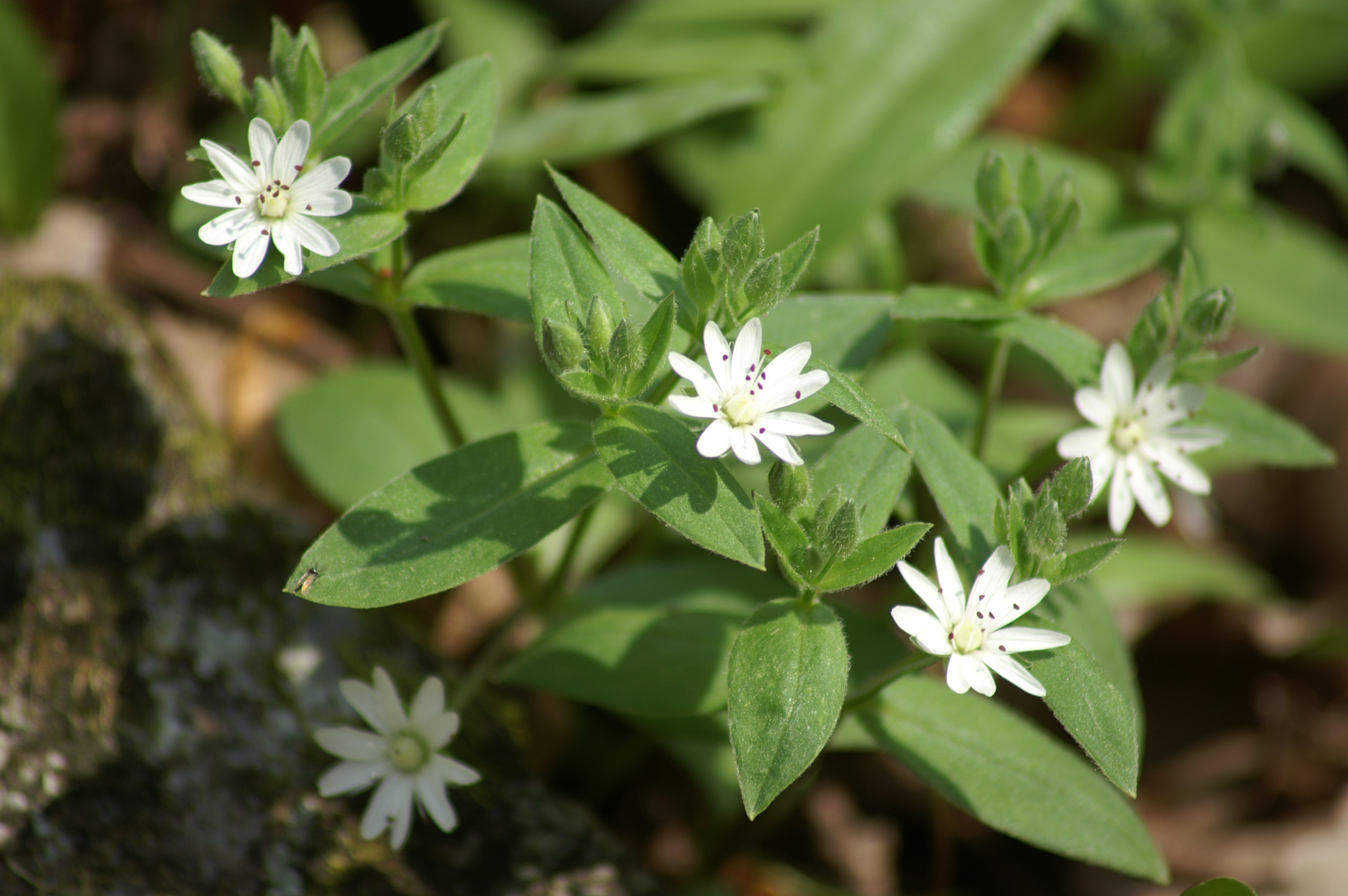 Star chickweed growing along the Potomac River in Virginia.